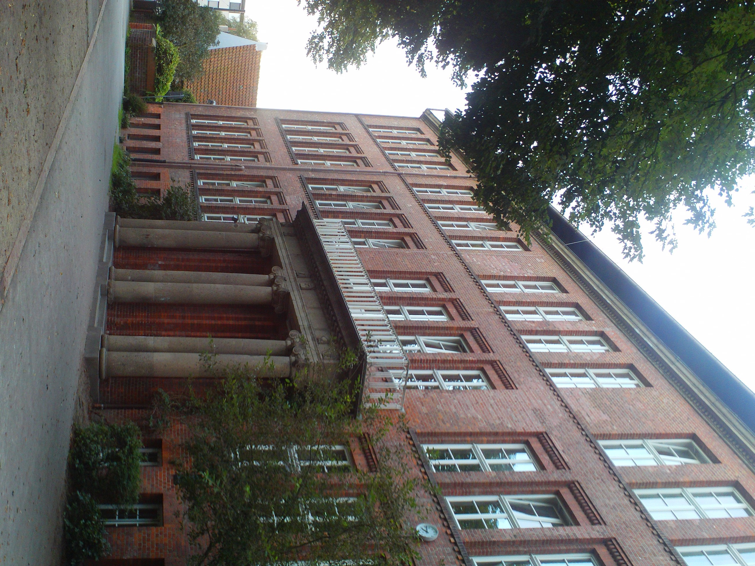 Stader Straße School at 134 Am Hulsberg and Stader Straße in Bremen, Germany. It is registered as a protected cultural monument with the State Conservation Office (registration number 0058).